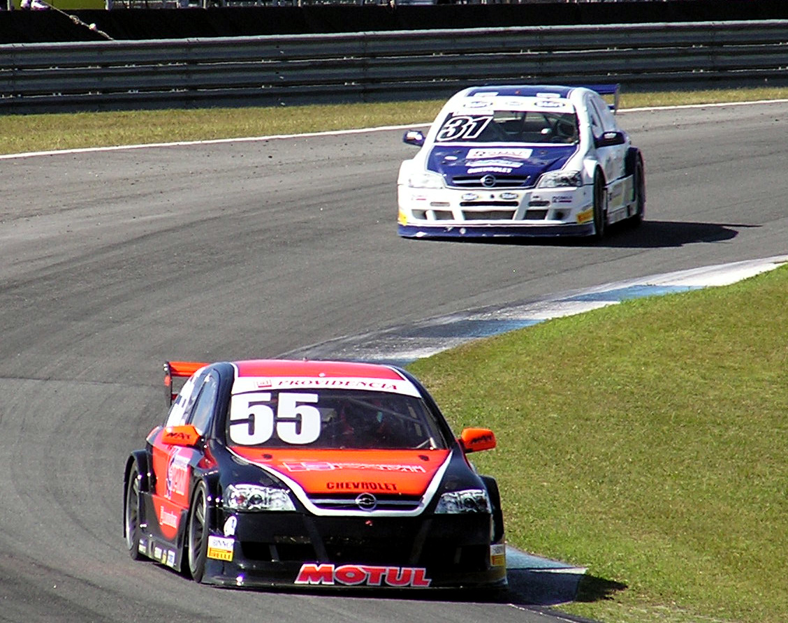 Stock Car V8 light, 2006 Curitiba #55 William Starostik, #31 Felipe Nogueira